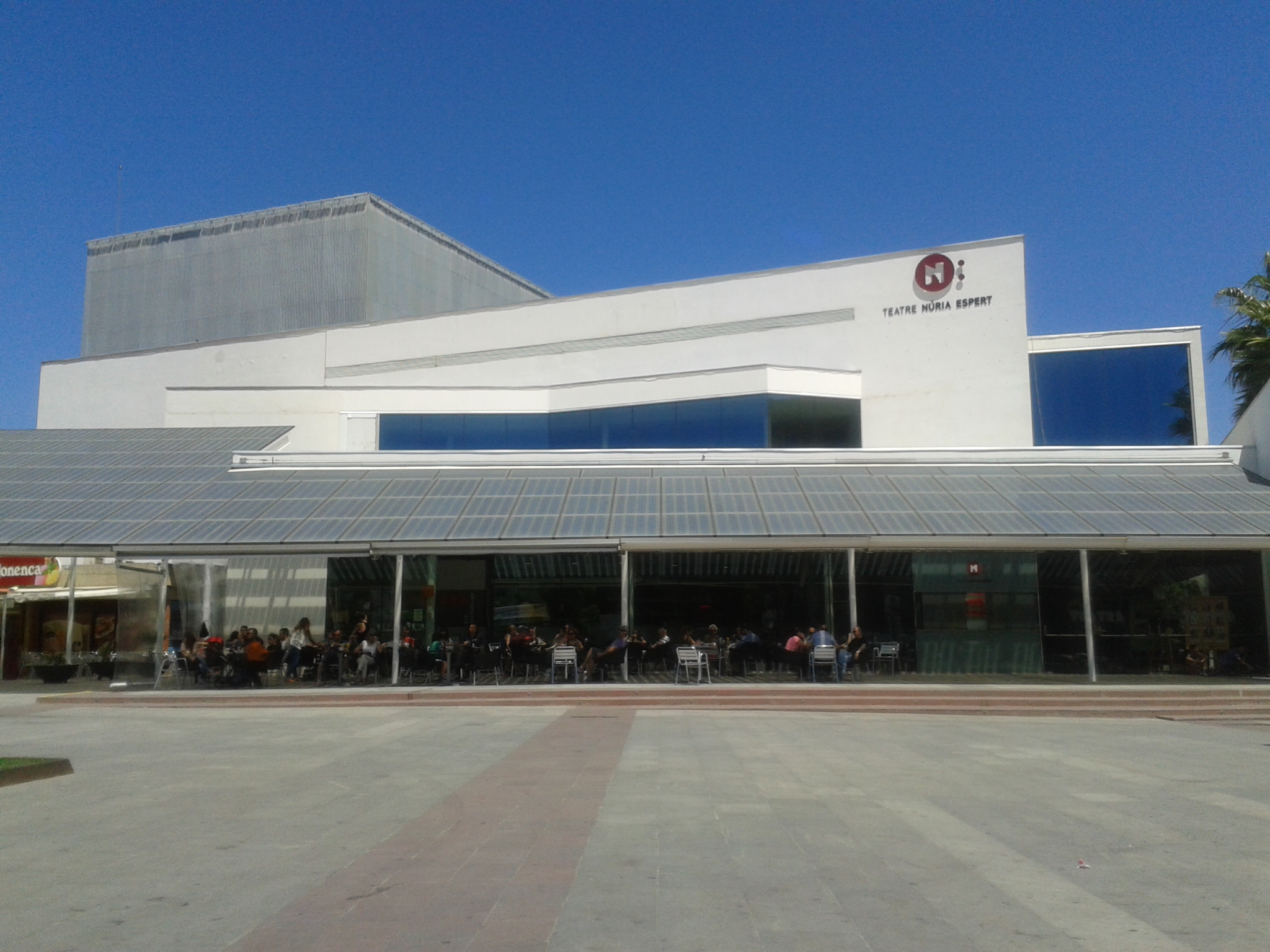 Teatre Núria Espert de Sant Andreu de la Barca